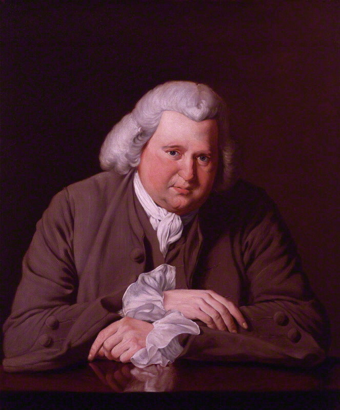 Portrait of Erasmus Darwin